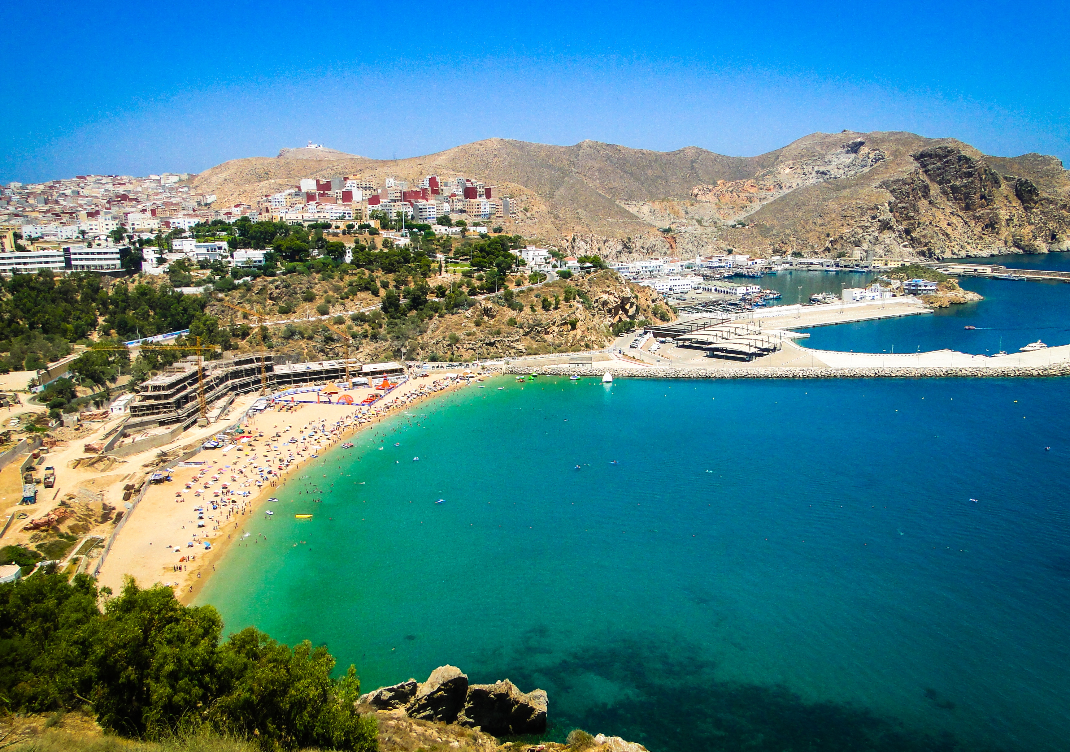 Quemado beach, picture taken from "Moroviejo" corniche -by D.M